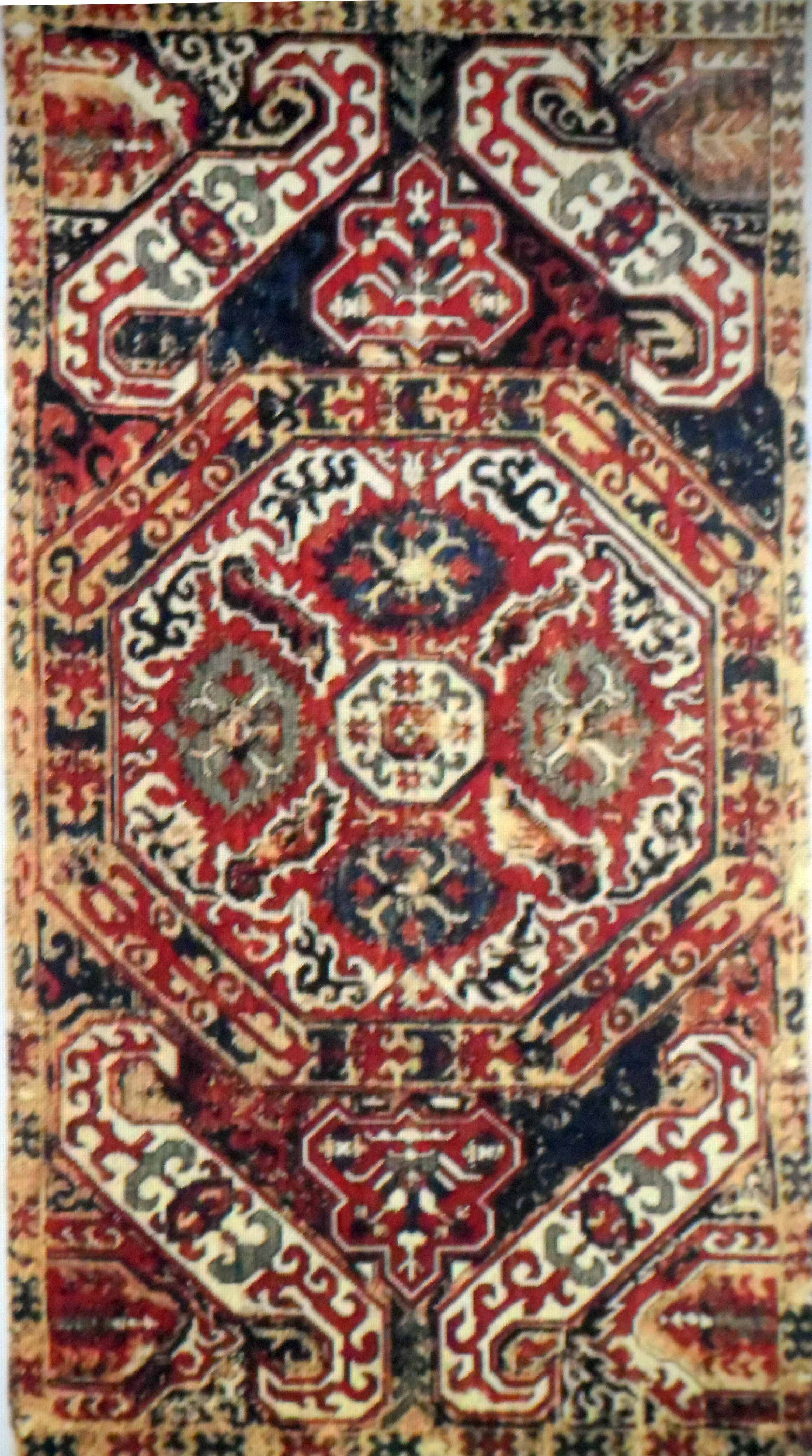 "Embroidery Gasimushagy" - Azerbaijanian silk embroidery, Karabakh school, Jabrayi (Cəbrayıl) group, 17th century.